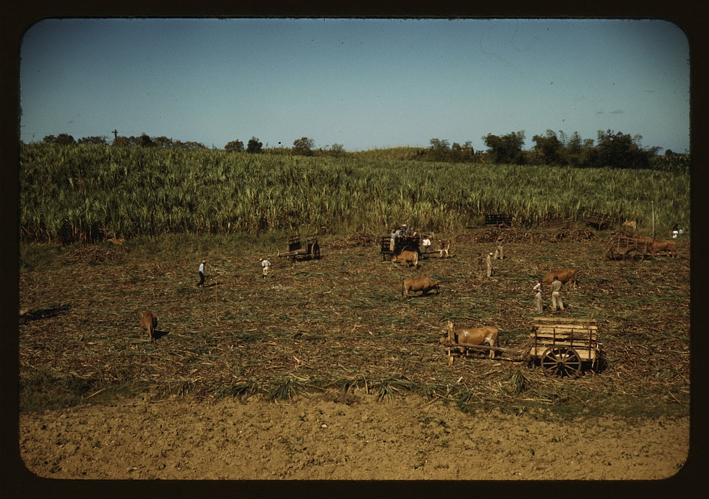 Title: Harvesting sugar cane in a burned field, vicinity of Guanica, Puerto Rico. Burning the sugar cane gets rid of the dense leaves and makes cutting the unharmed stalks easier